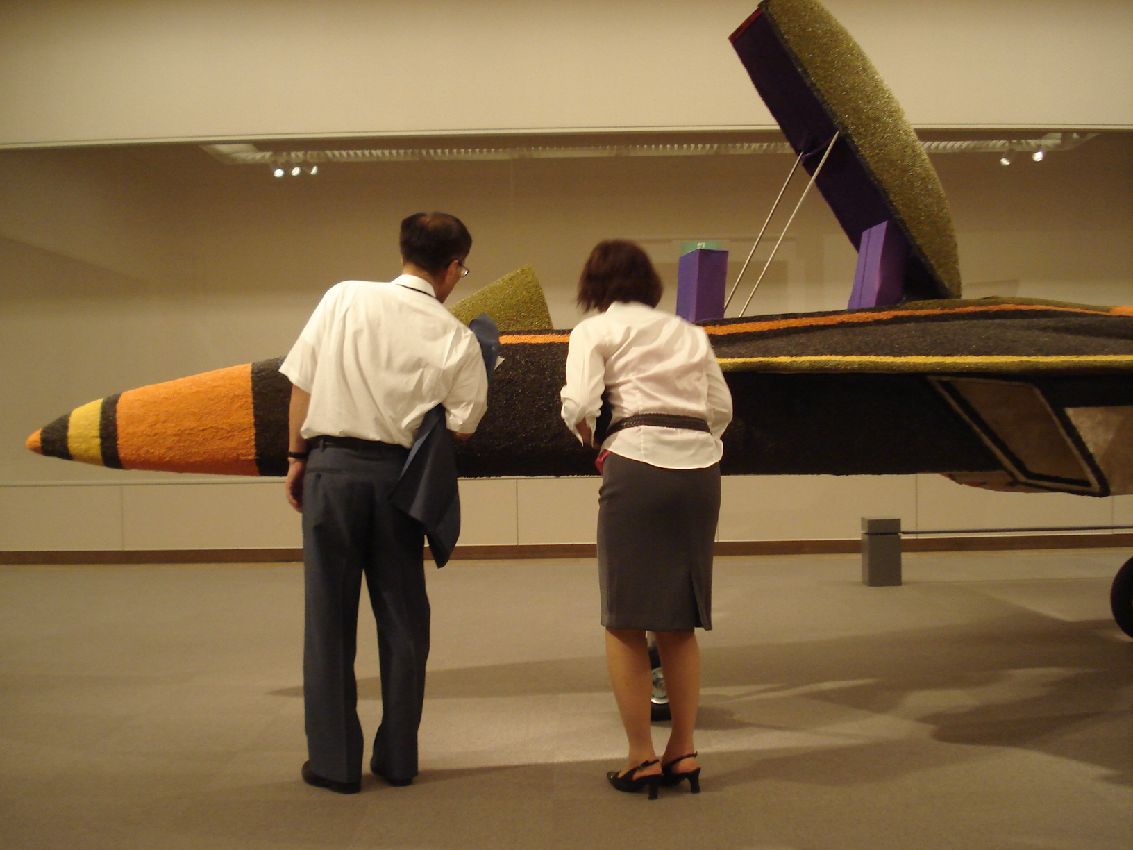 Visitors are closely watching `Sucker'wfp21` aircraft sculptural at Aichi Prefectural Museum of Art in Nagoya, Japan